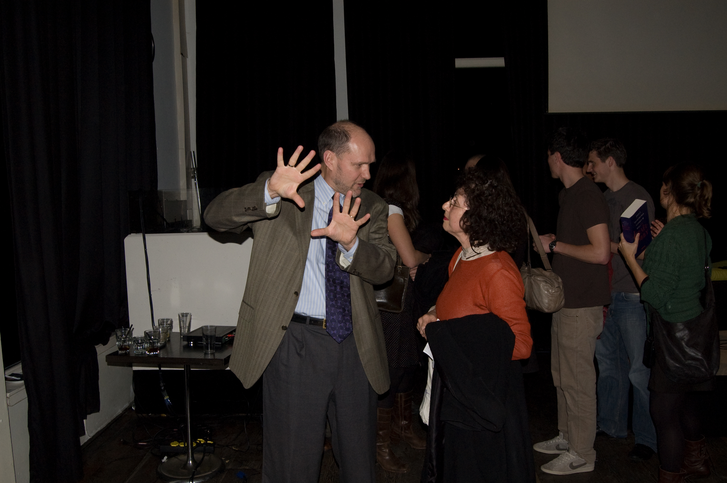 American political scientist Stephen M Walt.